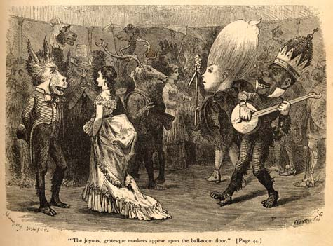 New Orleans: 1875 engraving "The joyous, grotesque maskers appear upon the ball-room floor." Mardi Gras masque ball. Per [1], this is identified as the 1873 Comus ball at the Varieties Theater.